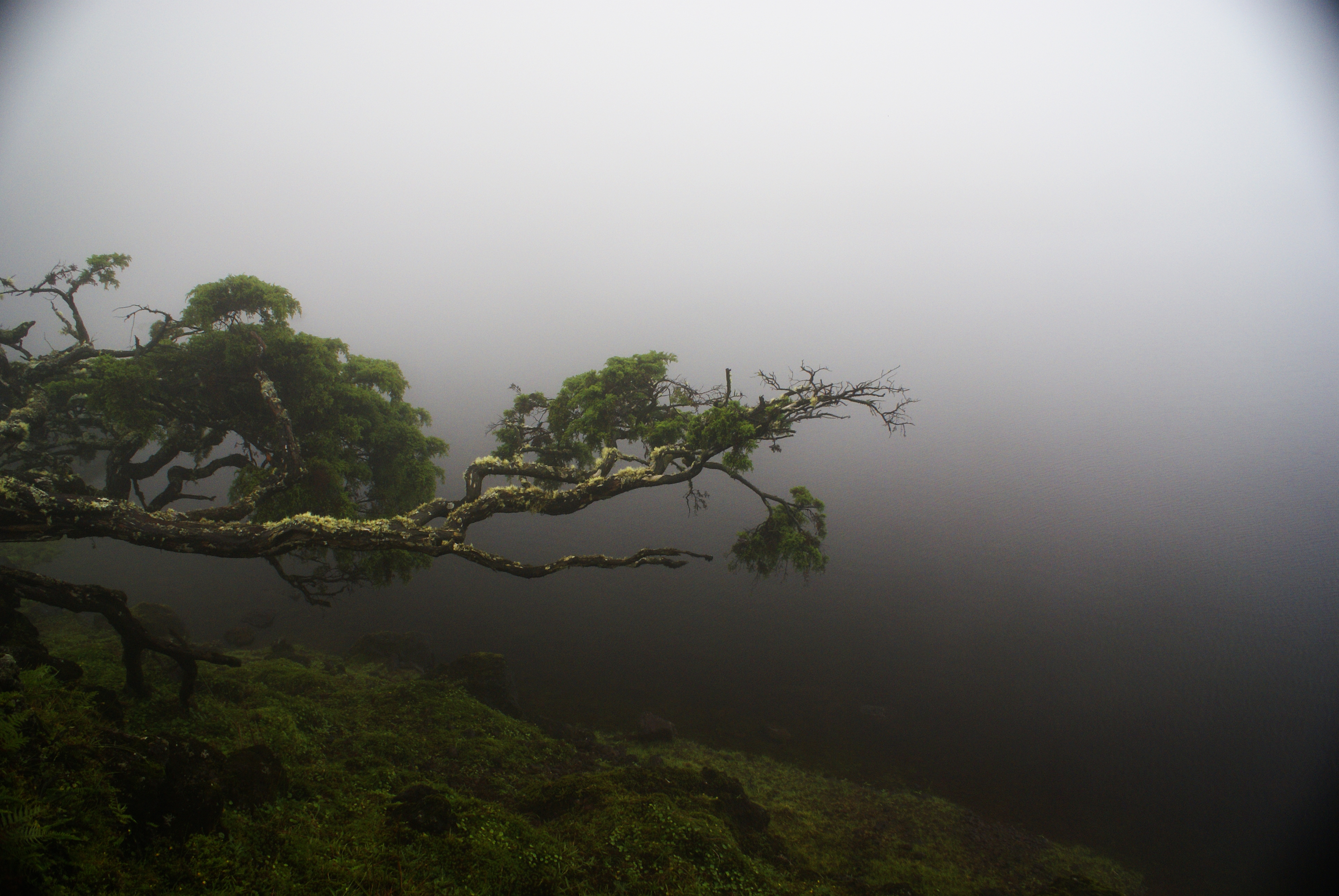 Lagoa do Paul, within the fog, municipality of Lajes do Pico, island of Pico, Azores (Portugal)